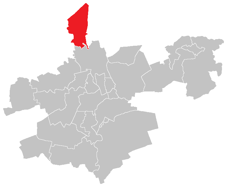 Location map of Olomouc district Chomoutov